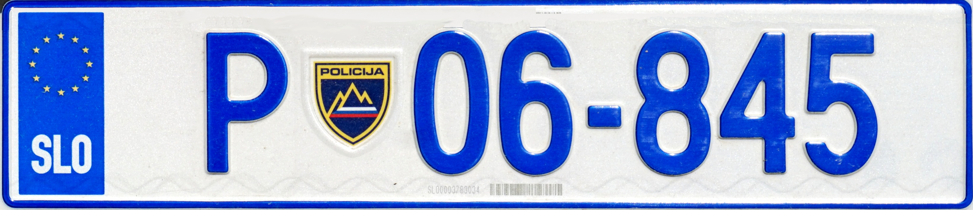 Slovenian police vehicle number plate